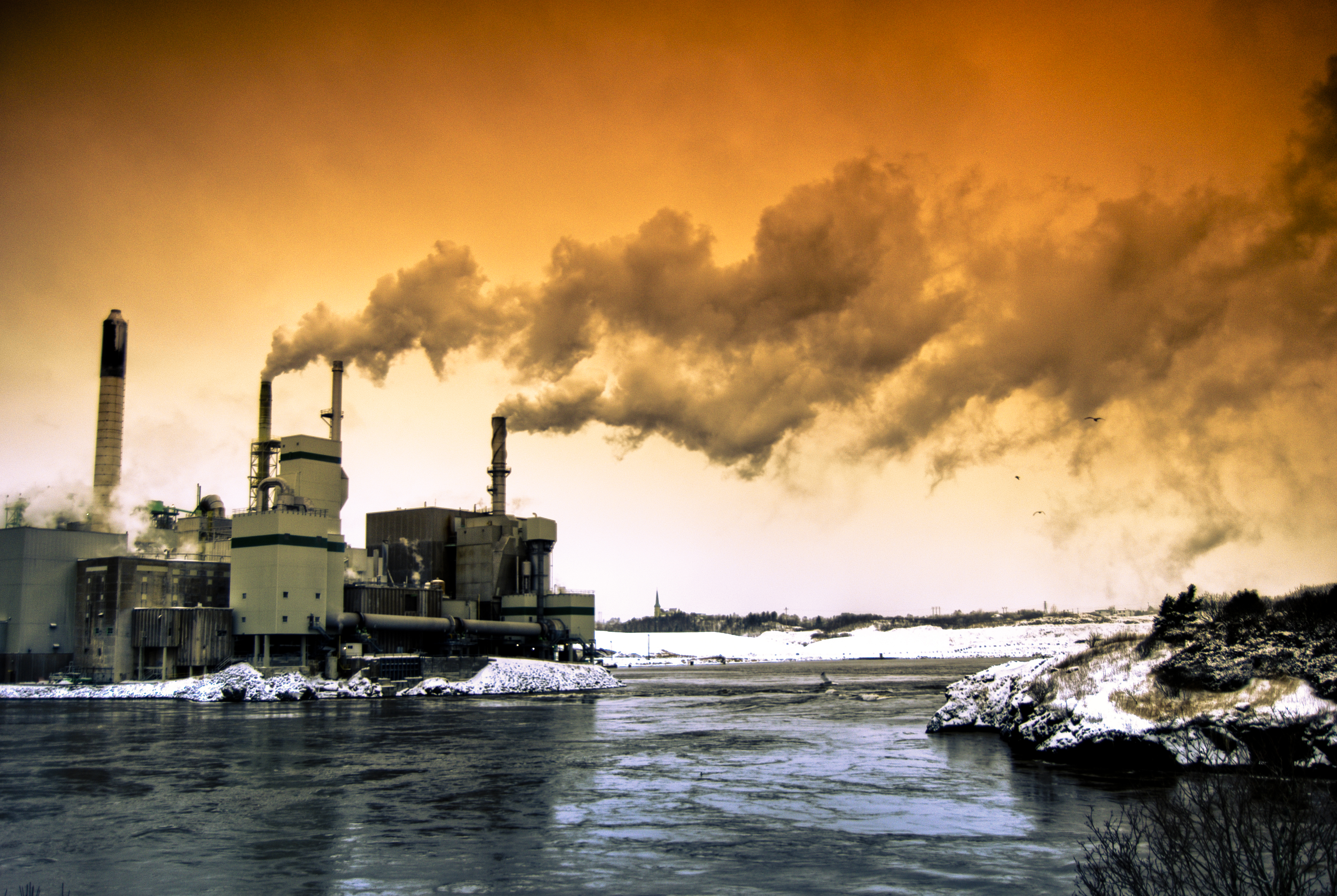 A paper mill in Saint John. This photograph has been taken with the aid of a photographic filter to artificially produce the "amber sky" effect.